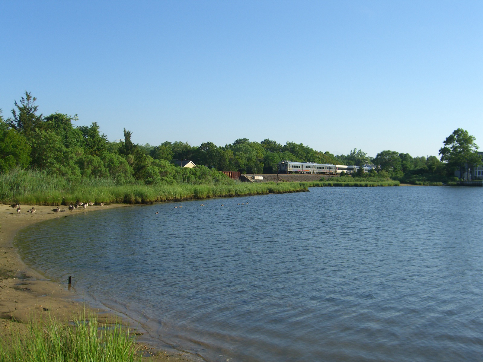 Glimmer Glass beach off Magnolia Avenue in Brielle, New Jersey.